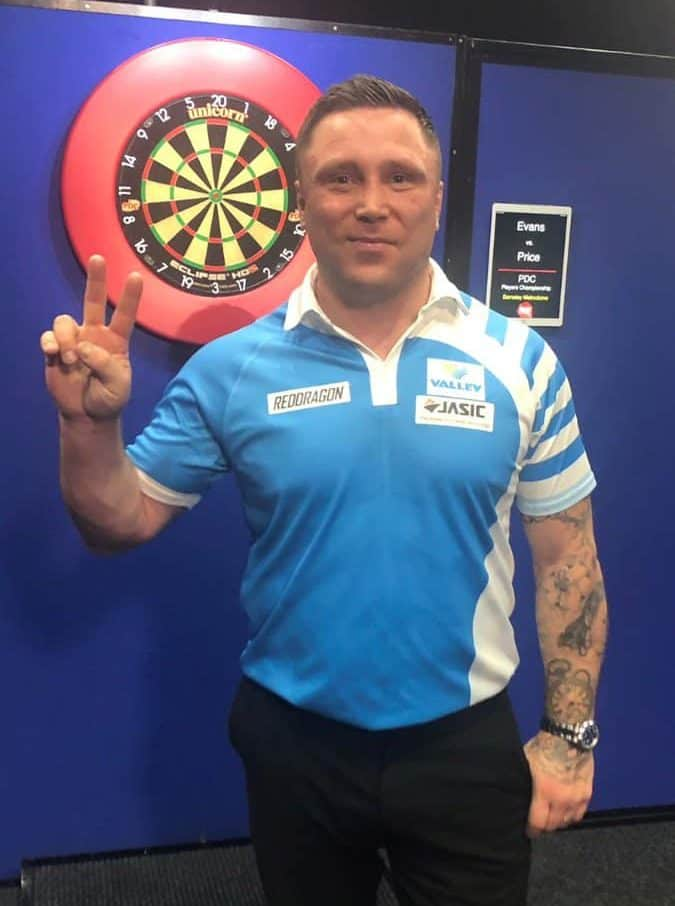 Price in 2019